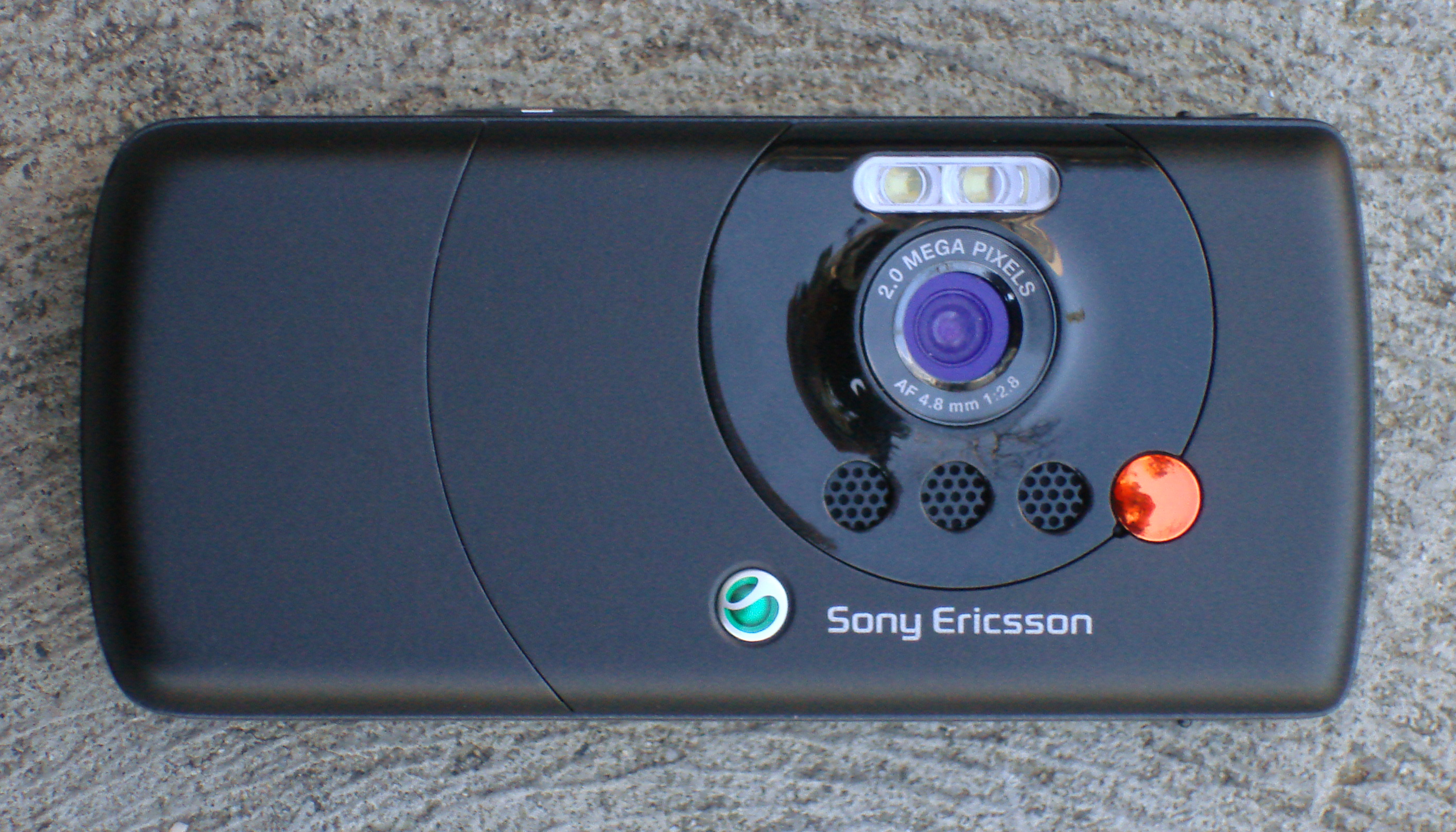 Sony Ericsson W810i camera phone. Camera used was a Sony Cyber-shot DSC-W100.